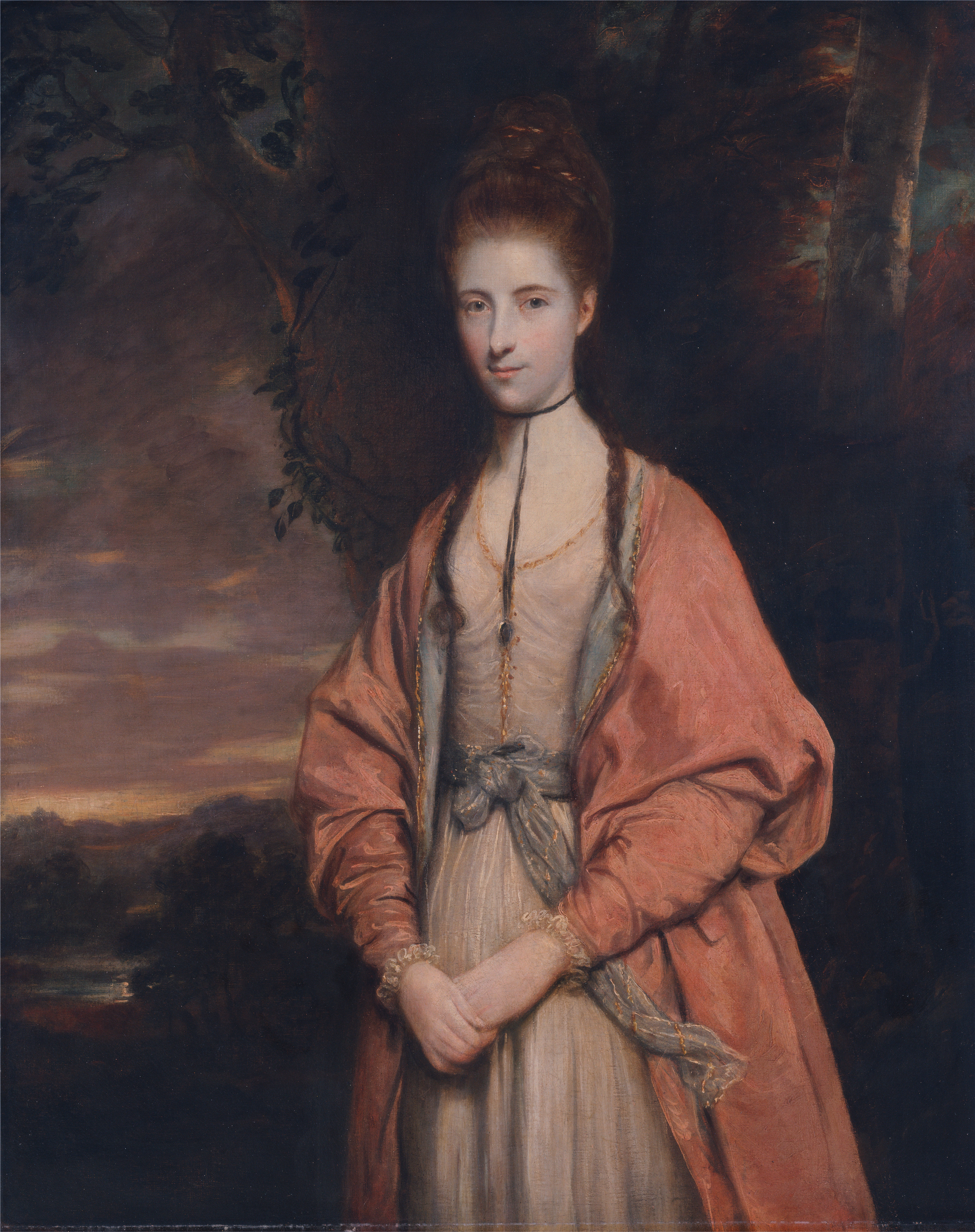 Portrait of Anne Seymour Damer